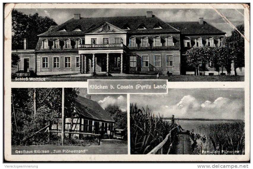 Oćwieka pocztówka.